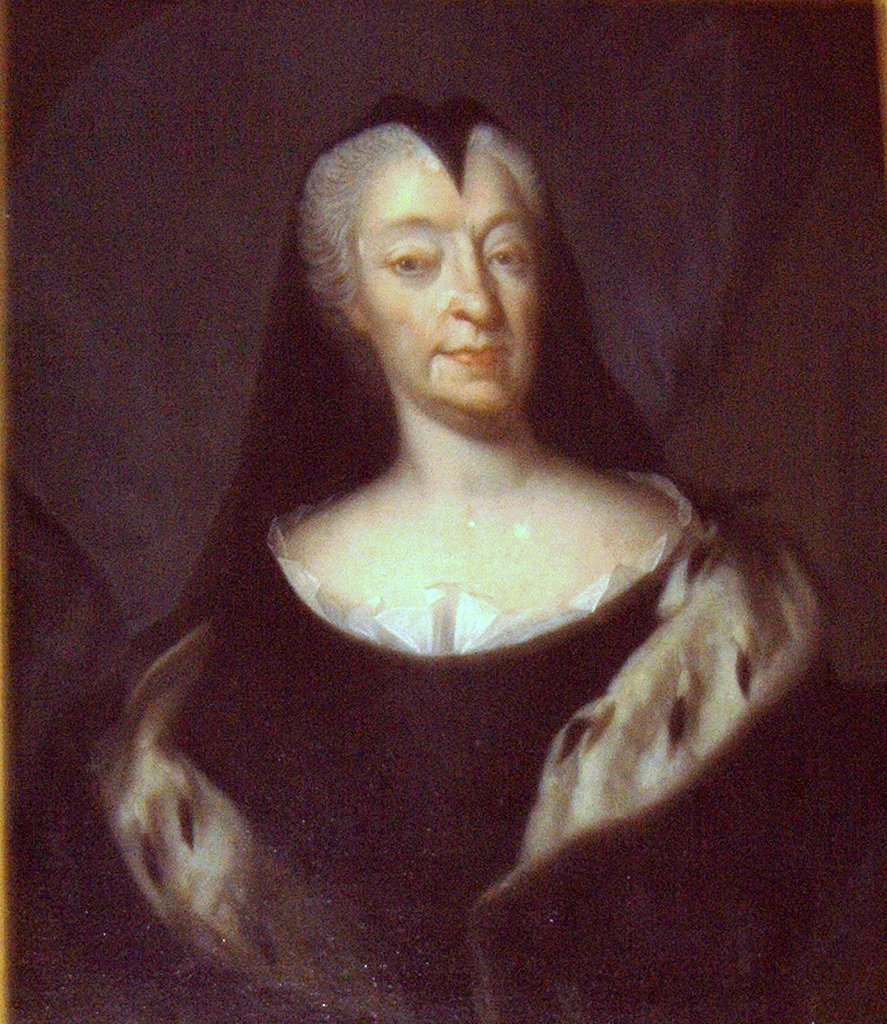 So-called portrait of Anna Margaretha von Gemmingen (1711-1771), abbesse of secular Lindau Abbey, but probably portrait of Magdalena Wilhelmine of Württemberg (1677-1742) as widow